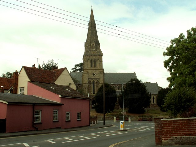 Holy Trinity church, Halstead, Essex. The church in this picture was designed by George Gilbert Scott & Moffatt and built in 1843-4. It stands at the southern end of Halstead. The main road in the picture is A.131 and the turning to the left, in front of the church, is the road to Gosfield.